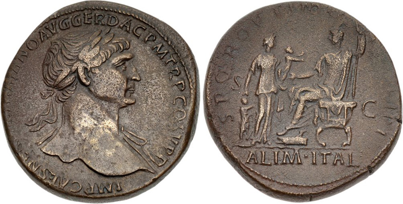 Trajan. AD 98-117. Æ Sestertius (30mm, 26.86 g, 6h). Rome mint. Struck AD 103. Laureate bust right, slight drapery ALIM ITAL in exergue, Abundantia (or Annona) standing right, resting hand on child at her side and presenting another child to Trajan, seated left on curule chair, holding scepter. RIC II 461; Banti 12.